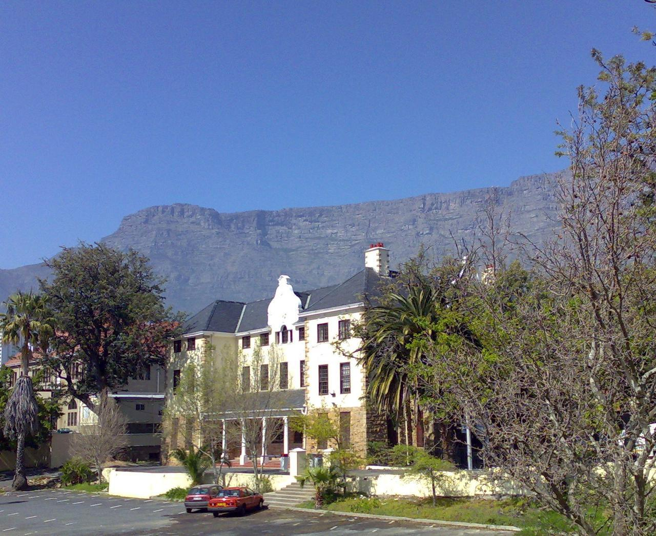 Rosedale House - Front finally exposed after the building alongside had been demolished. This was the building prior to UCT and SACS High School moved to Newlands.